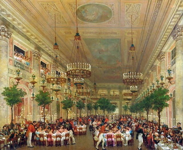 Feast at the Tuileries Palace for the wedding of king Leopold I of Belgium and princess Louise Marie d'Orléans, 1832